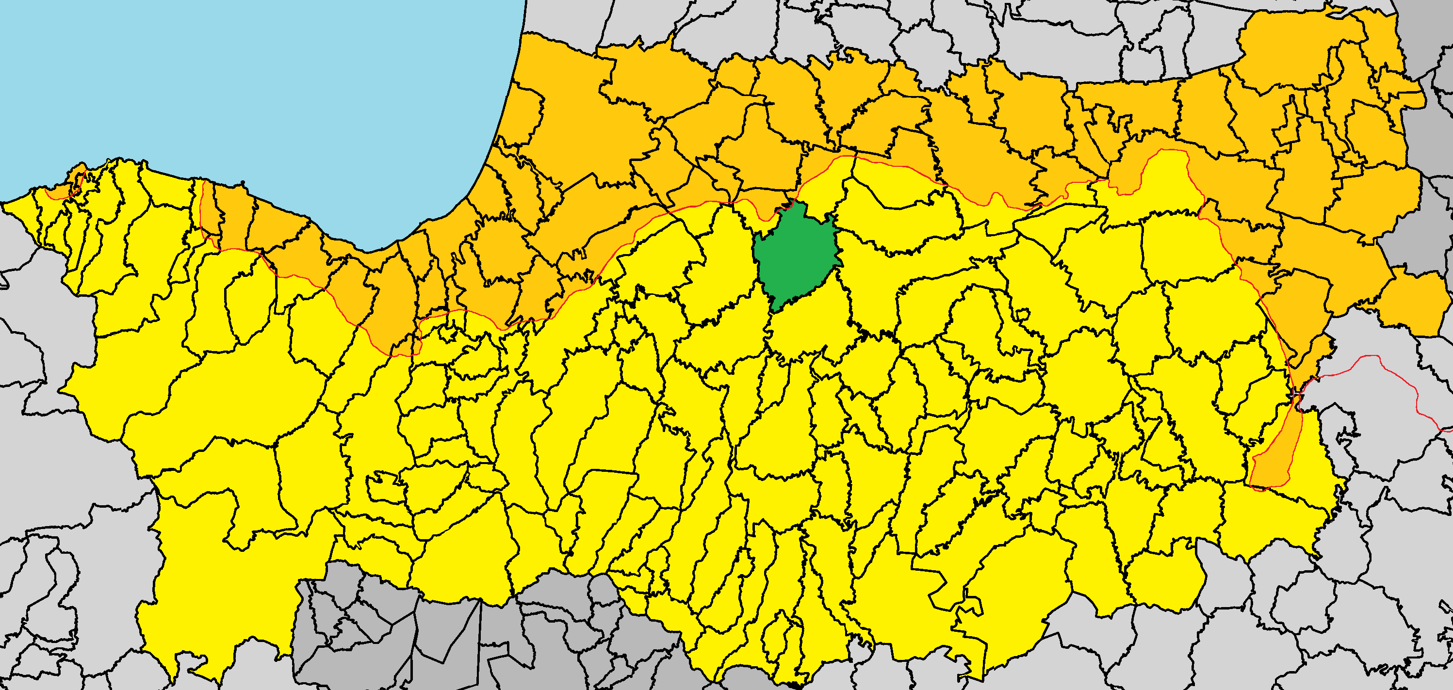 Akaki in Nicosia District.